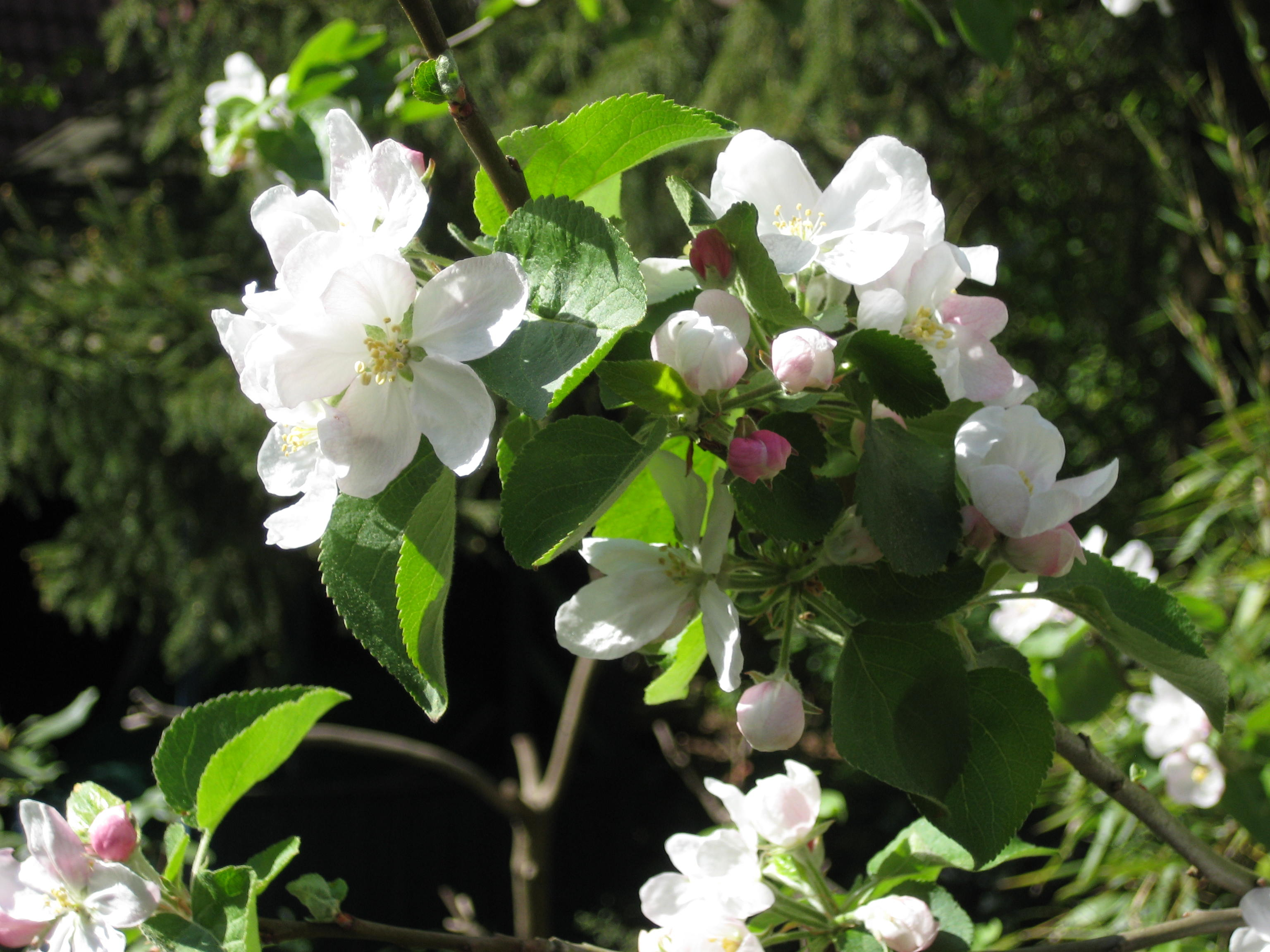 Apple tree (Malus domestica) in flower; Sort: Geheimrat Dr. Oldenburg; in a Back garden in Bremen, Germany